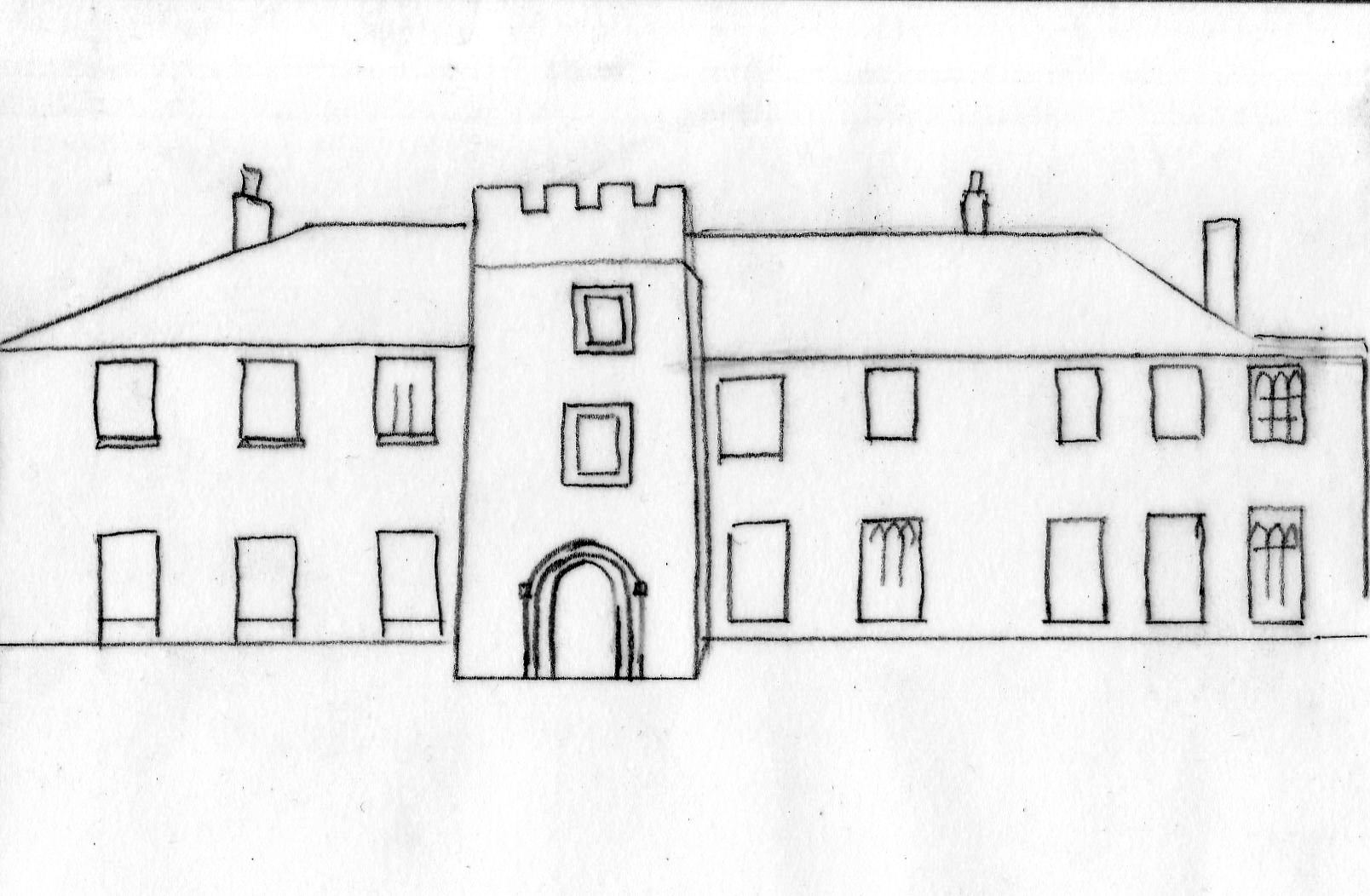 Yeo Vale House, Alwington, Devon; south front. Demolished 1973